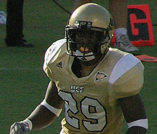 Rice vs. UCF Knights football at Rice Stadium in 2006